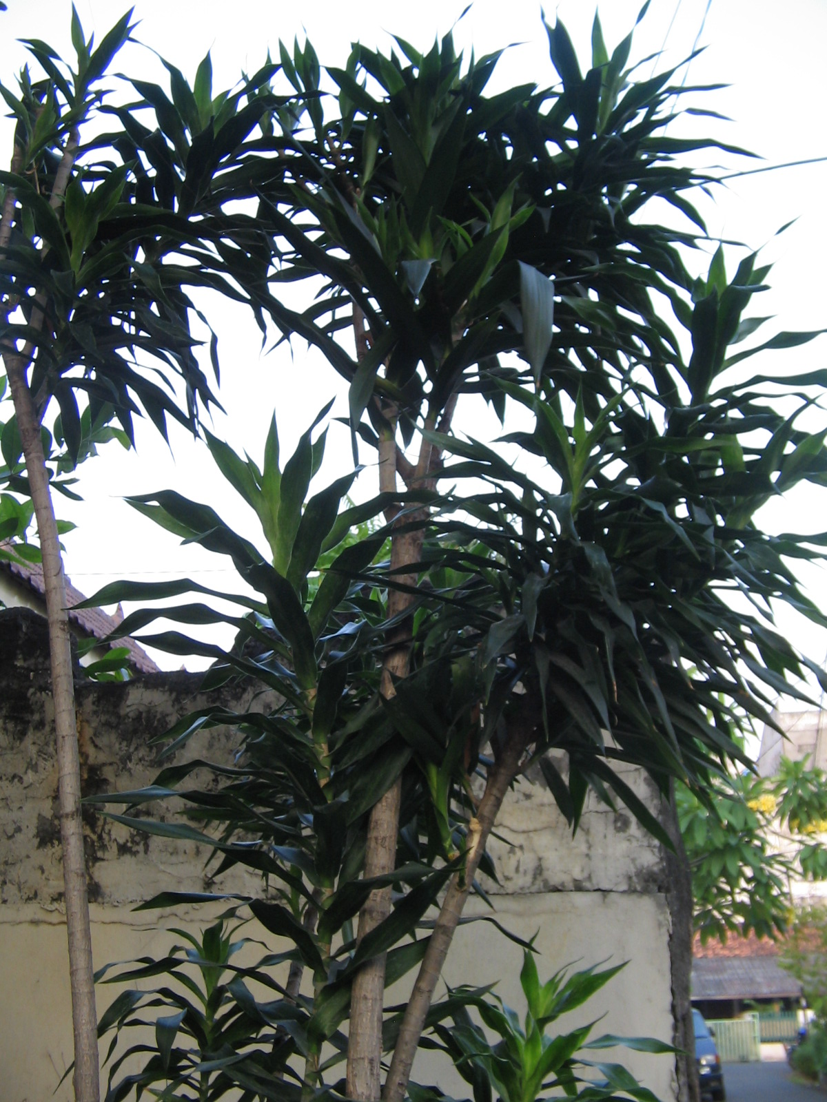 Suji (Dracaena angustifolia), used traditionally as green colouring agent for traditional Indonesian cuisine.